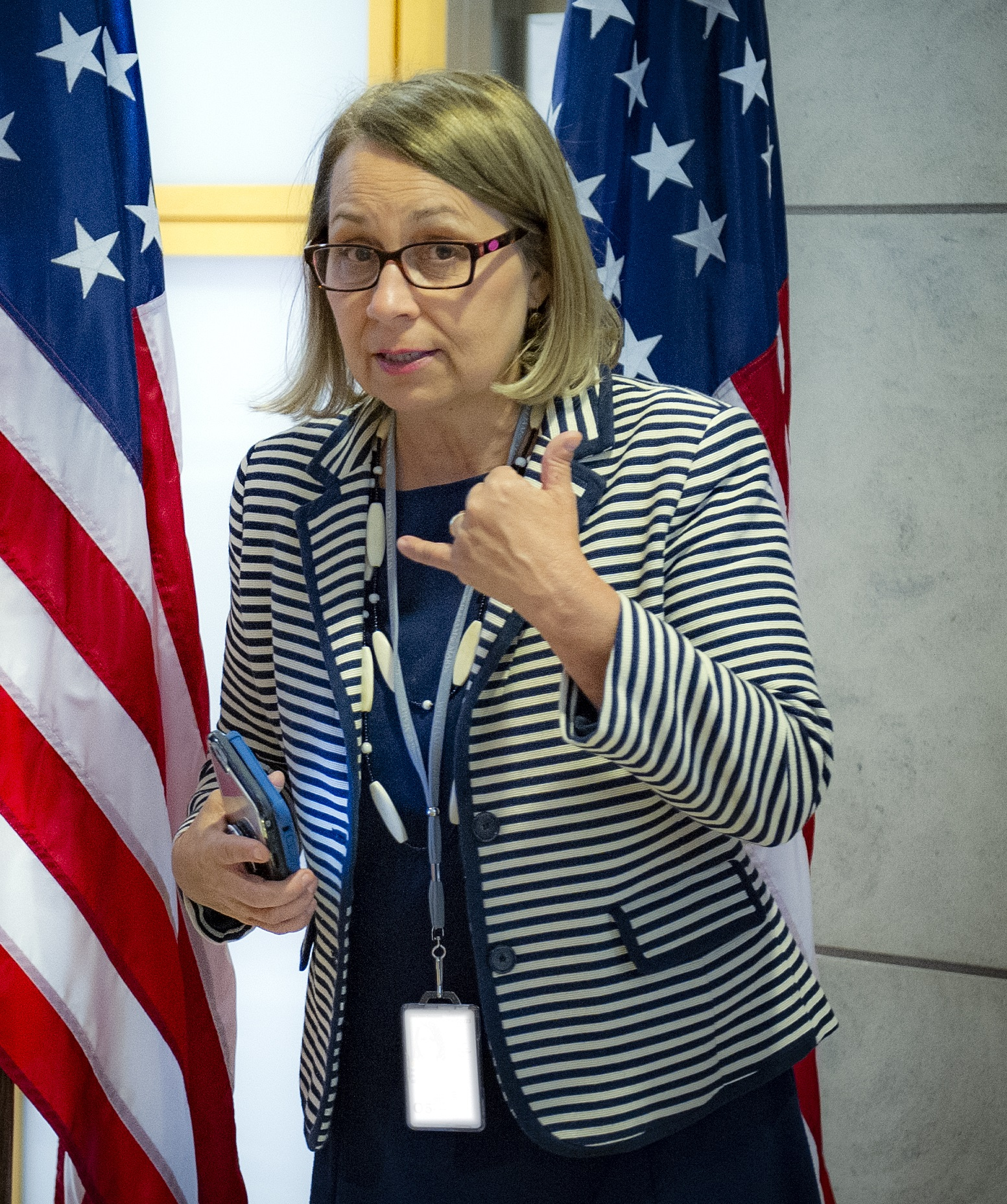 Hand gesture "Call me" sign, which has the little finger and thumb outstretched, and holds it up to the ear, to signify a telephone. This is sometimes accompanied by mouthing the words "call me" or "I'll call you". This gesture is a common way to silently tell someone to call him or her, such as to continue a conversation in private.